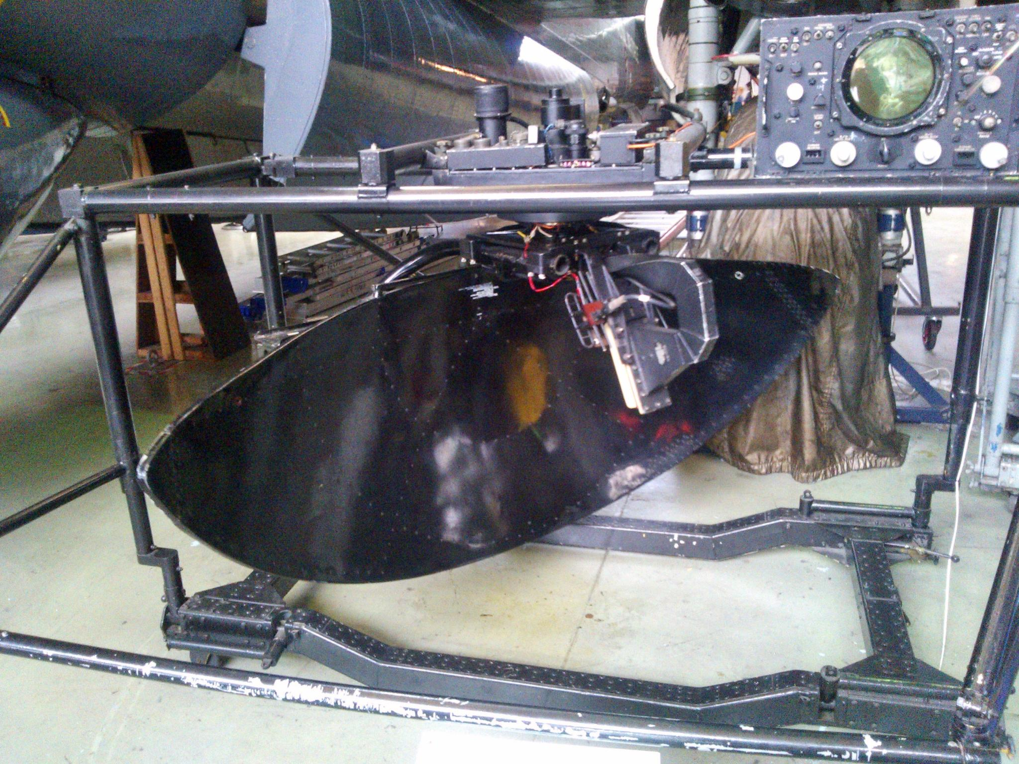 An AN/APS-20 radar antena at the Museum of Science and Industry in Manchester